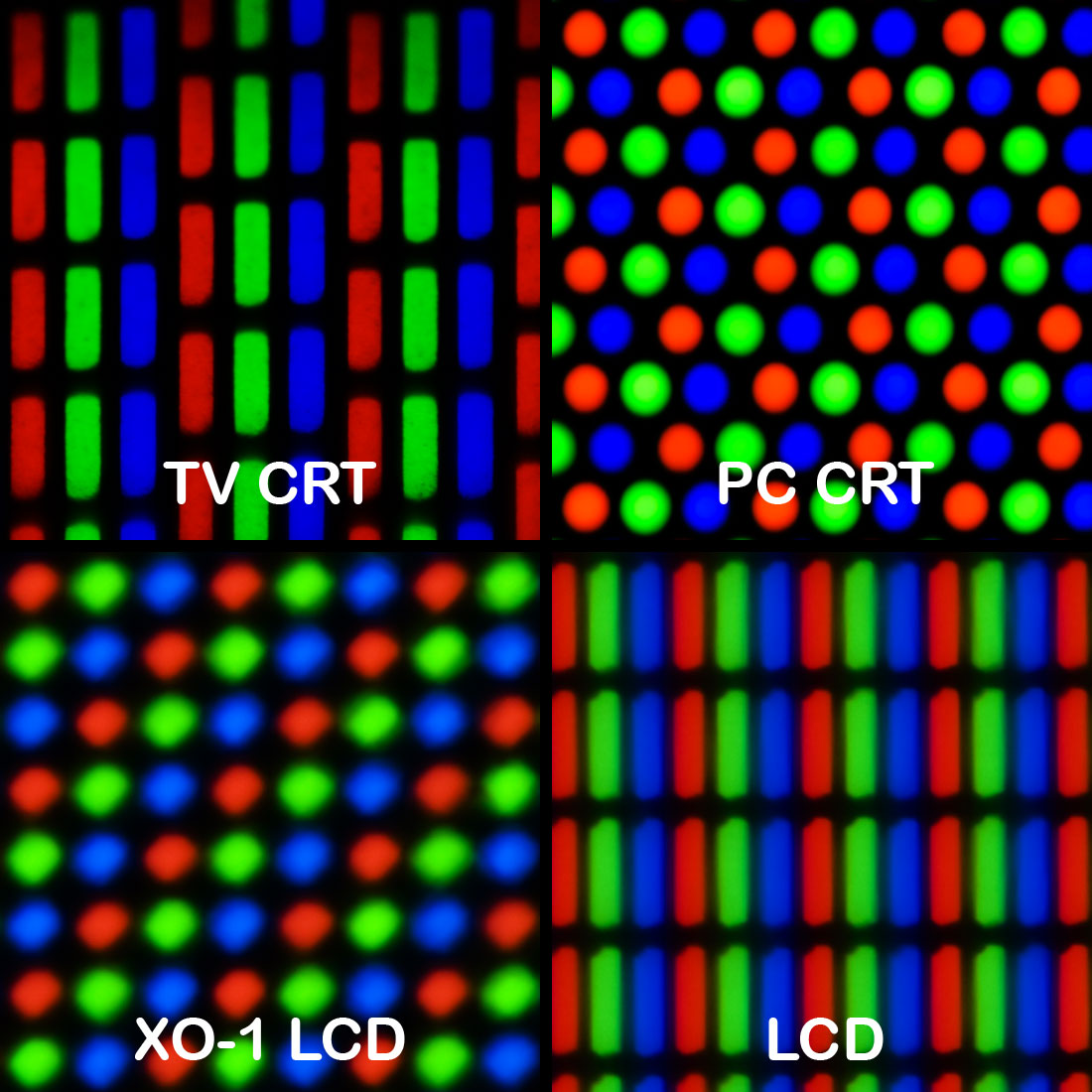 Pixel geometries. Clockwise from top left: a standard definition CRT television. "Palsonic" brand. (this image is significantly reduced compared to others) a CRT computer monitor. Diamond View 19" (18" viewable). Model 1995SL. a laptop LCD: Lenovo X61, 12" 1024×768 the OLPC XO-1 LCD display. (Test-B2)